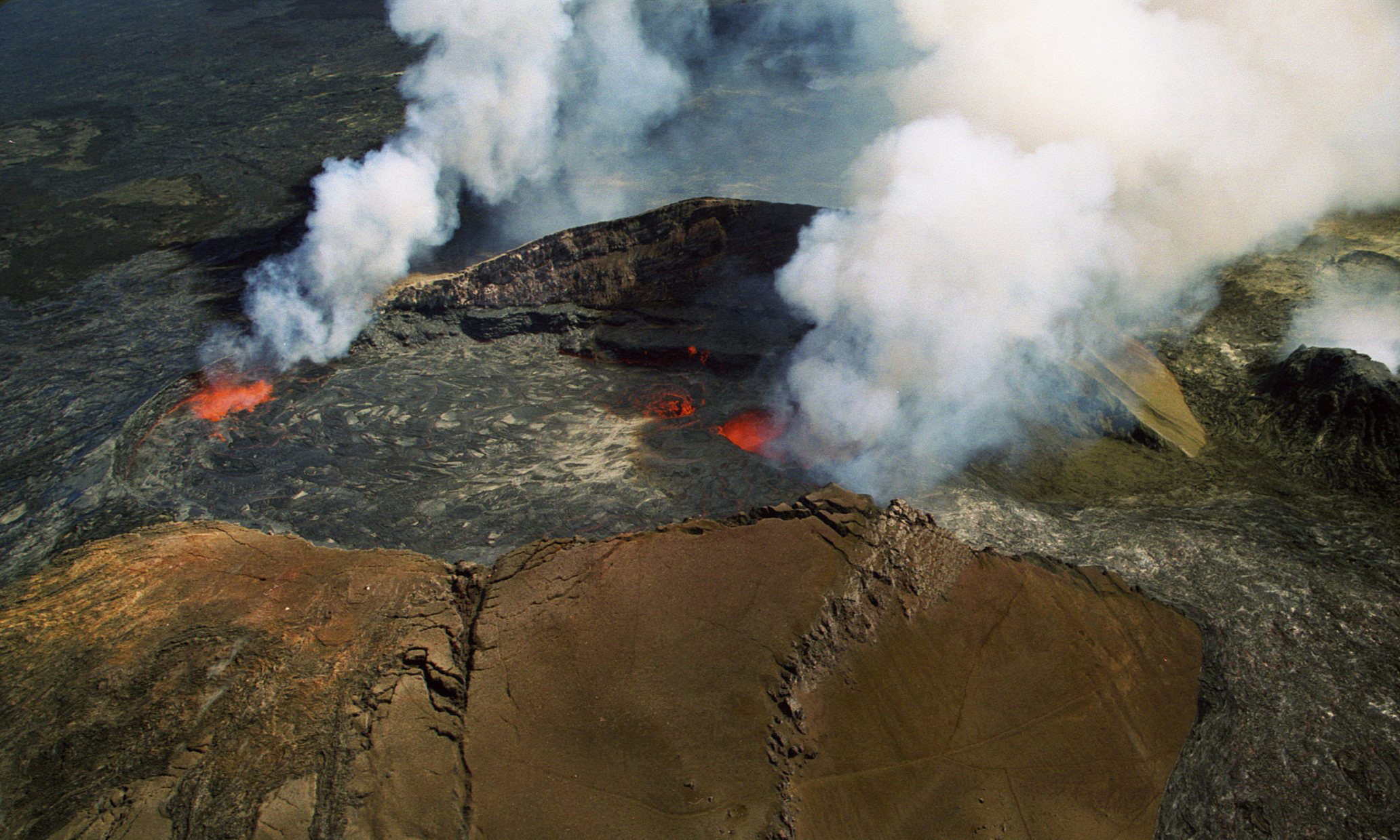 Aerial view of Puʻu ʻŌʻō volcanic cone of Kilauea volcano in Hawaii, USA.